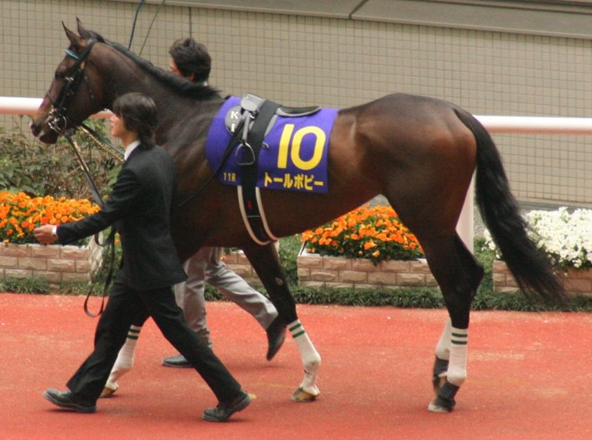 Tall Poppy (horse)